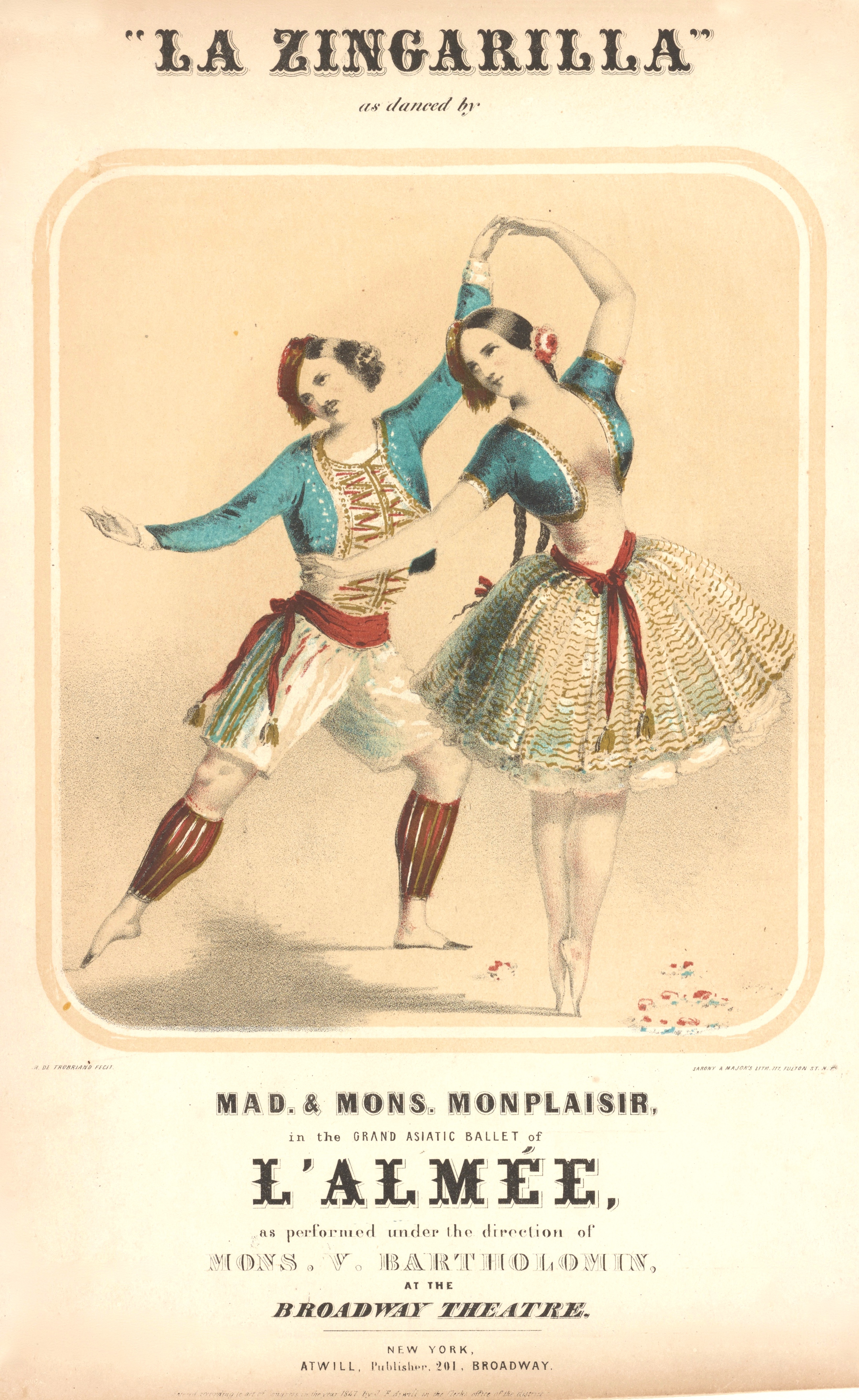 sheet music cover depicting dancersIppolito Monplaisir and his wife, Adèle Monplaisir (image cropped)